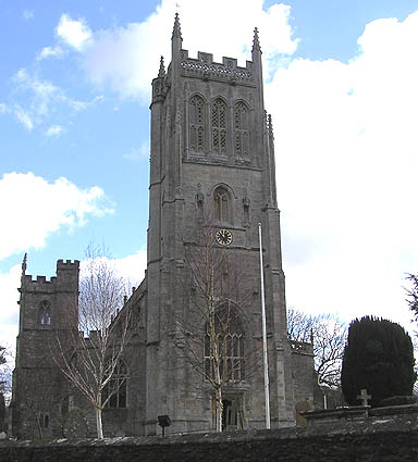 Bruton Parish church